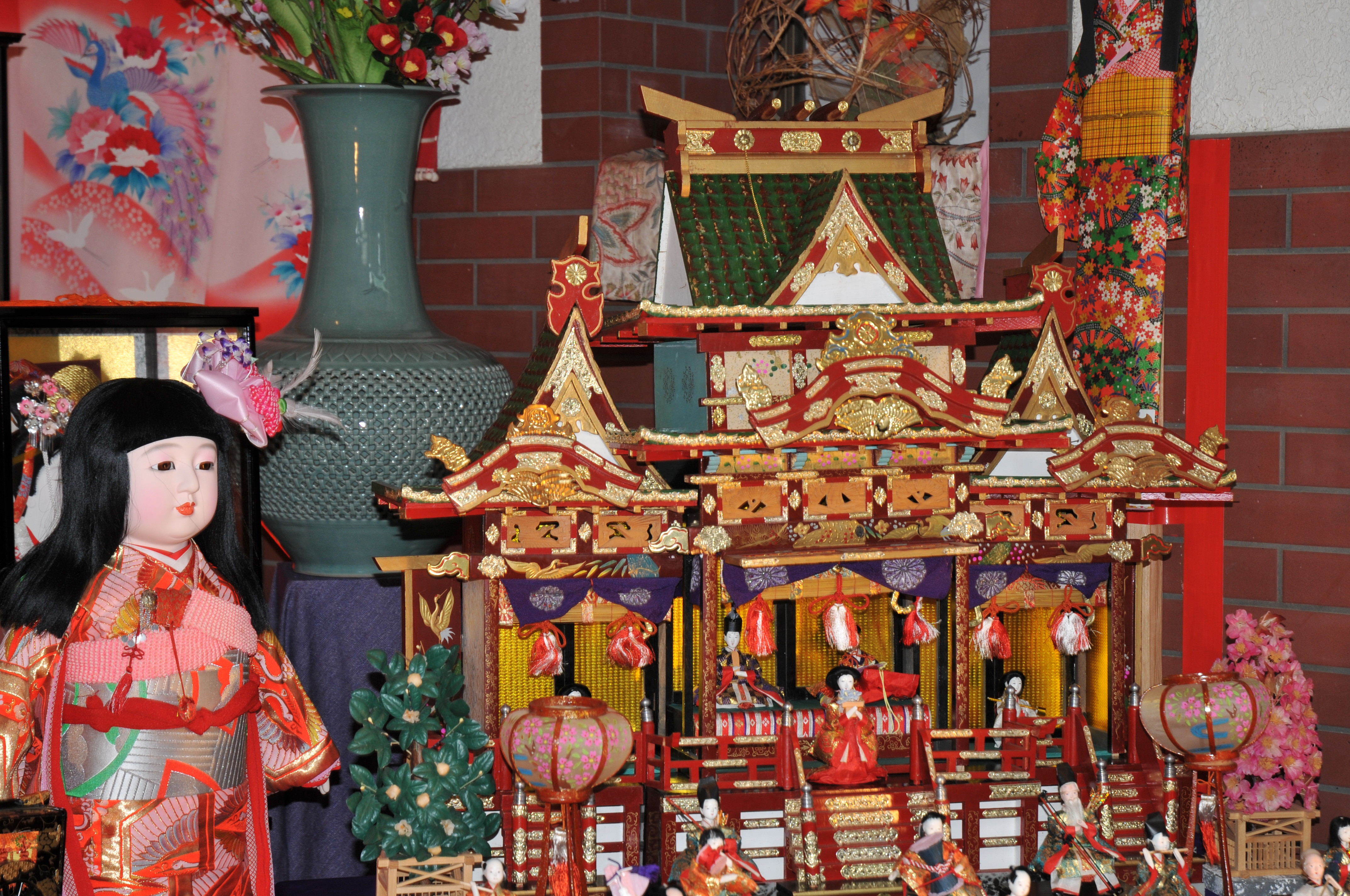 palace decoration Hina dolls and Ichimatsu doll